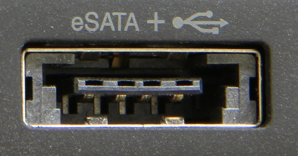 eSATAp plug on lenovo laptop